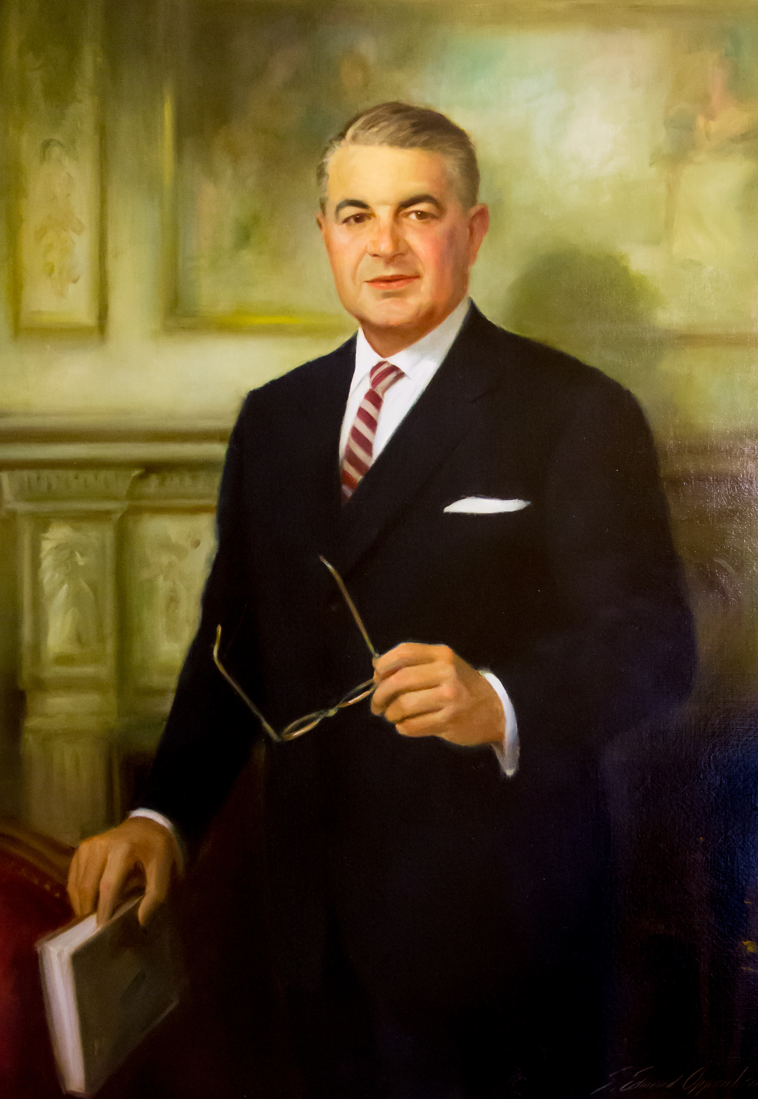 RI Governor Christopher Del Sesto. Official portrait in the Rhode Island State House.